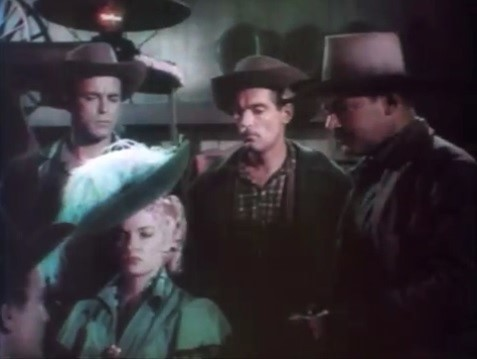 Jane Russell & Rory Mallinson (center) in Montana Belle - trailer (cropped screenshot)